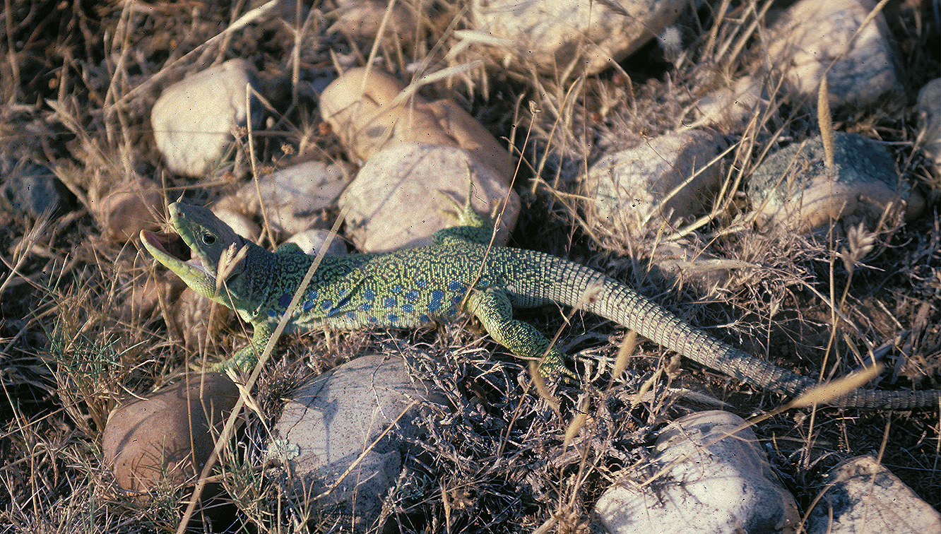 Timon lepidus